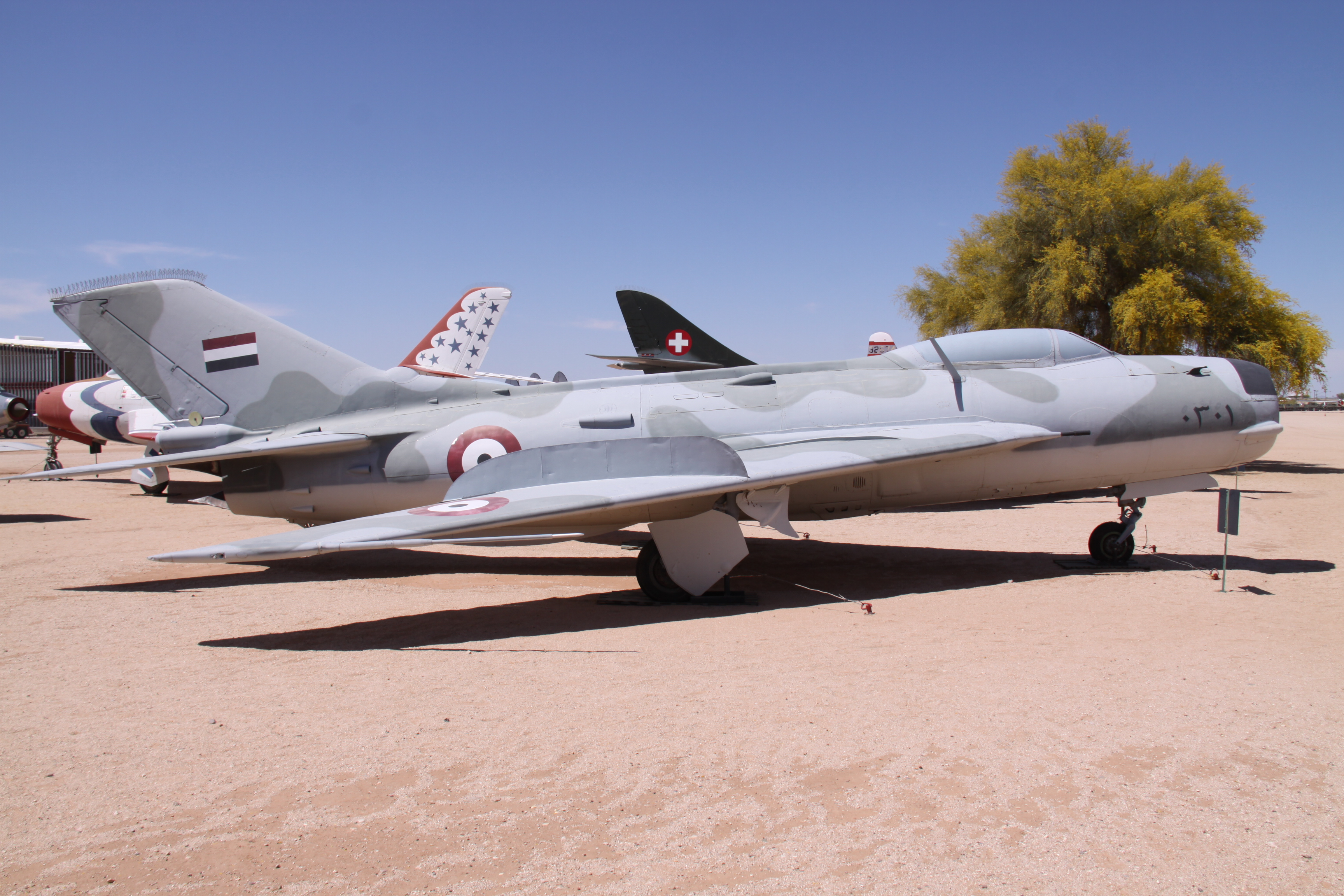 At Pima Air & Space Museum